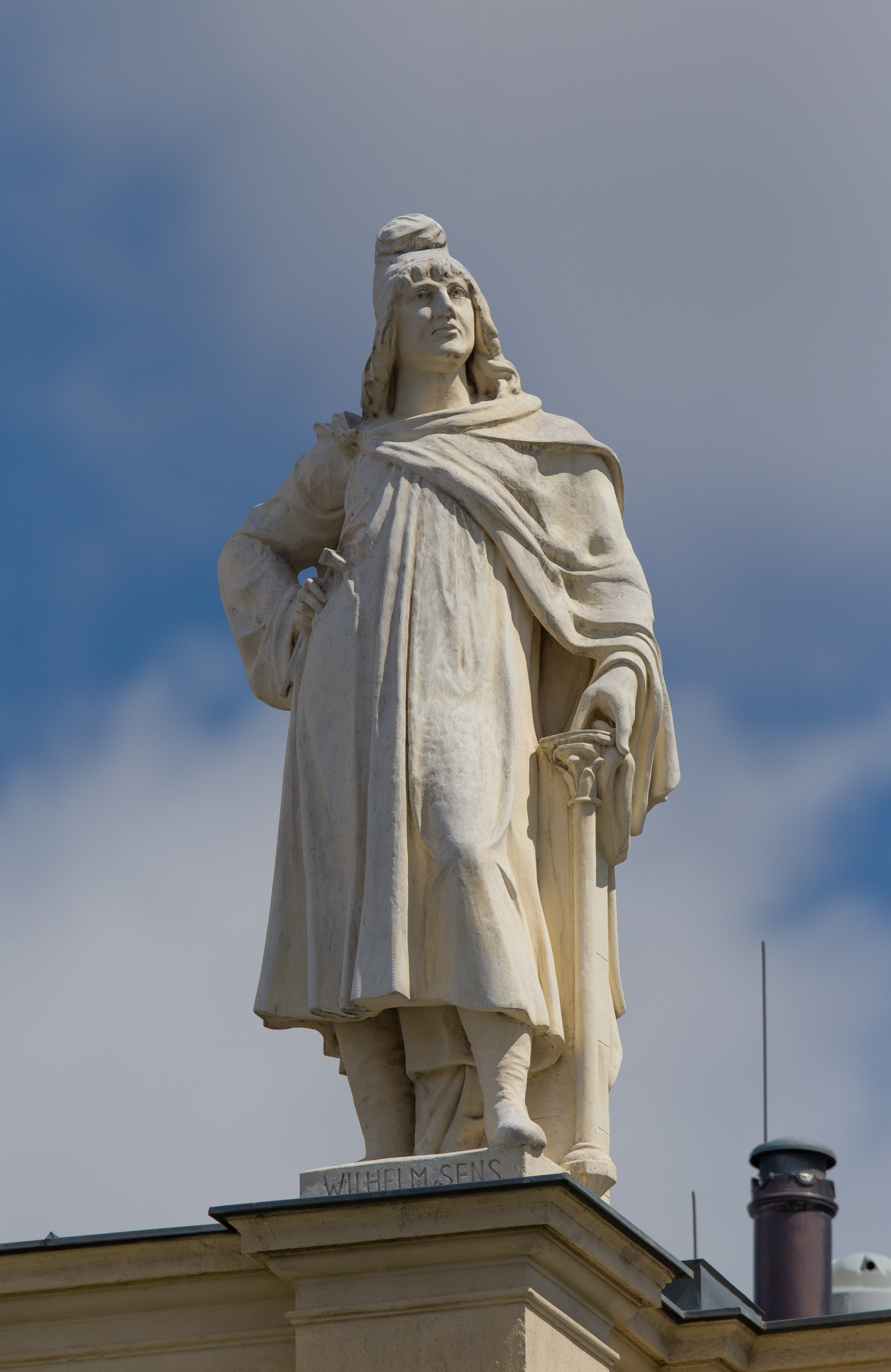 Kunsthistorisches Museum in Vienna Figures on the roof The making of this work was supported by Wikimedia Austria. For other files made with the support of Wikimedia Austria, please see the category Supported by Wikimedia Österreich.